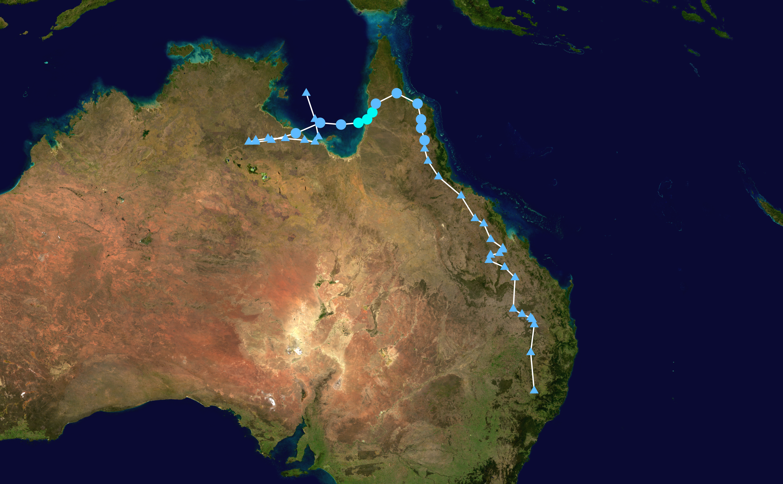 Track map of Tropical Cyclone Oswald of the 2012-13 Australian region cyclone season. The points show the location of the storm at 6-hour intervals. The colour represents the storm's maximum sustained wind speeds as classified in the Saffir–Simpson scale (see below), and the shape of the data points represent the nature of the storm, according to the legend below. Saffir–Simpson scale Tropical depression≤38 mph≤62 km/h Category 3111–129 mph178–208 km/h Tropical storm39–73 mph63–118 km/h Category 4130–156 mph209–251 km/h Category 174–95 mph119–153 km/h Category 5≥157 mph≥252 km/h Category 296–110 mph154–177 km/h Unknown Storm type Tropical cyclone Subtropical cyclone Extratropical cyclone / Remnant low / Tropical disturbance / Monsoon depression